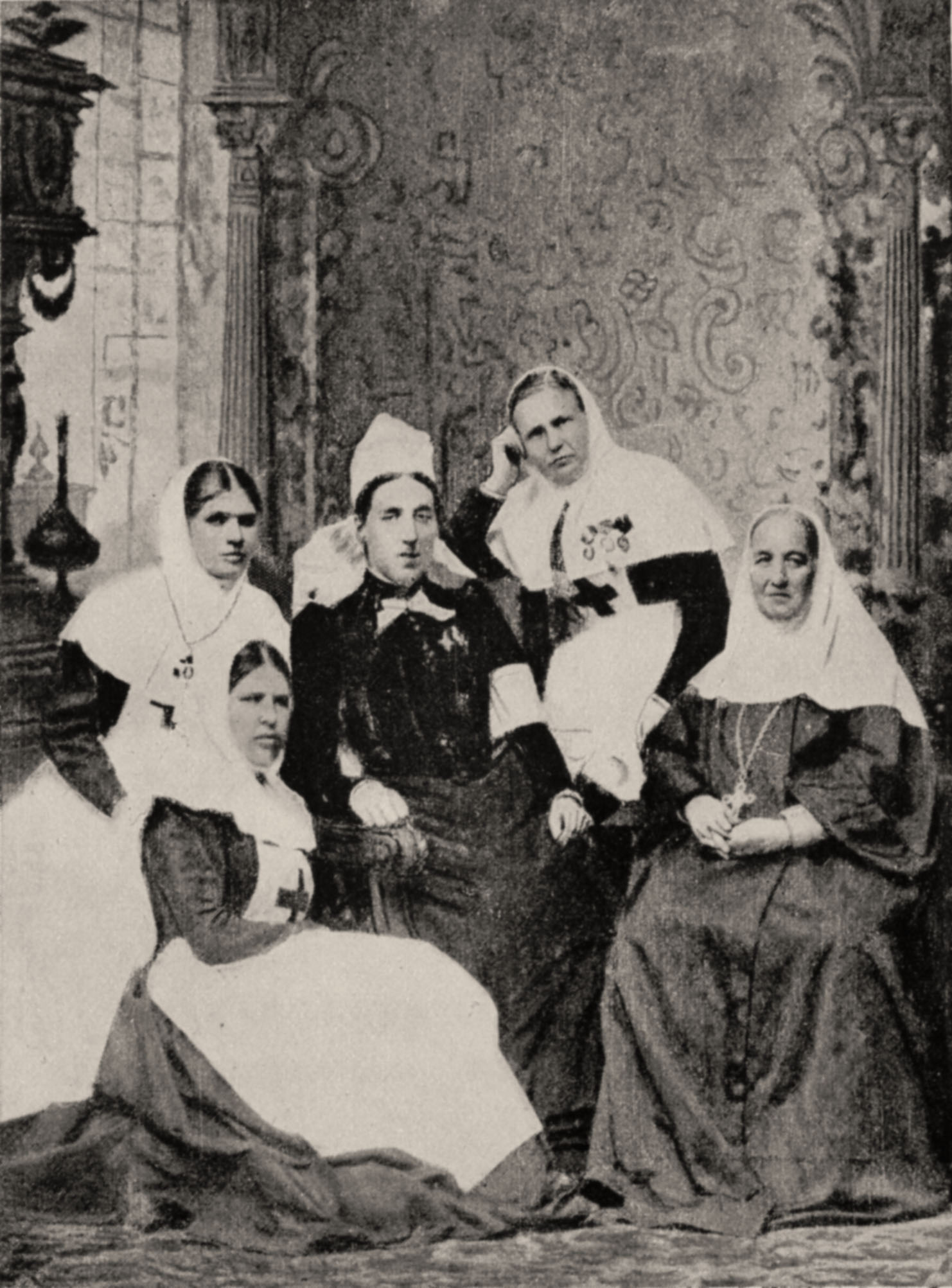 Moscow 1892. The Princess Shachovsky with three nursing sisters from her institution who are about to leave for Yakutsk.